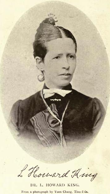 Dr Leonora Howard King by Yuen Chang, Tien-Tsin